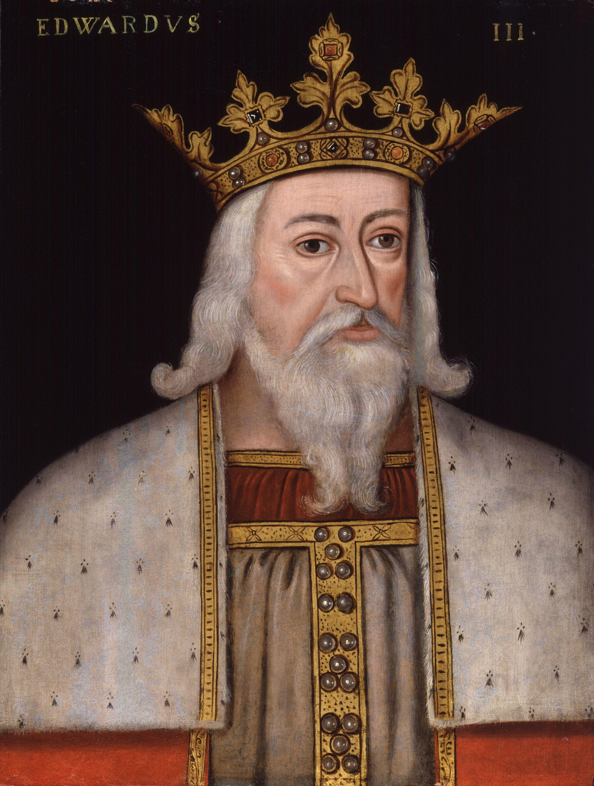 King Edward III, by unknown artist from the end of the 16th century. All images in this batch have an unknown author, but there is strong evidence it was first published before 1923 (based mainly on the NPG's estimated date of the work).